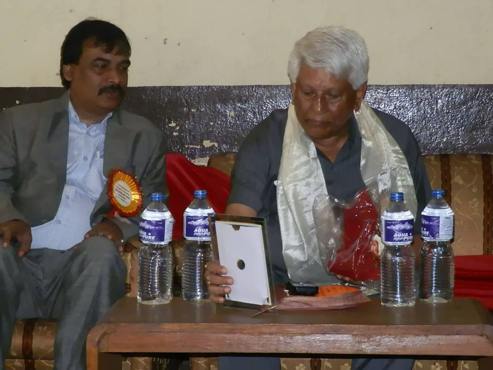 Ravindra Prabhat with Mr. Arjun Narsingh Kesi (Senior nepali congress leader and Ex cabinet Minister nepal Govt) in Kathmandu (Nepal), 13 September 2013